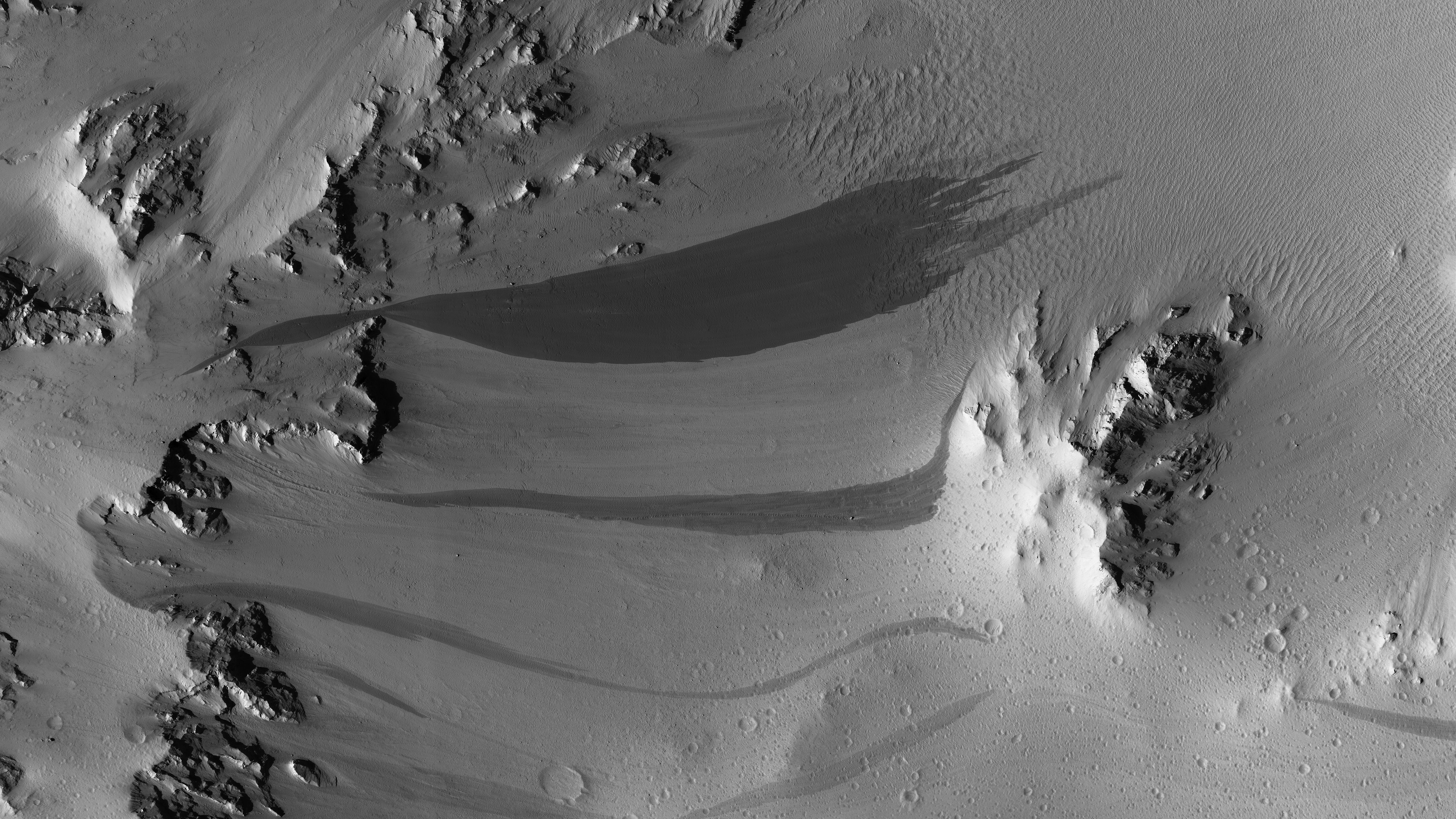 On the Beauty of Slope Streaks — How we do distinguish these from possible recurring slope lineae? Aside from location, these slope streaks slowly fade away and never come back. The most likely explanation is a falling rock or boulder, succumbing to gravity, that tumbles down the slope and comes to a rest, leaving behind exposed darker subsurface material. NASA/JPL/University of Arizona (288 km above the surface, and less than 5 km across.) ​